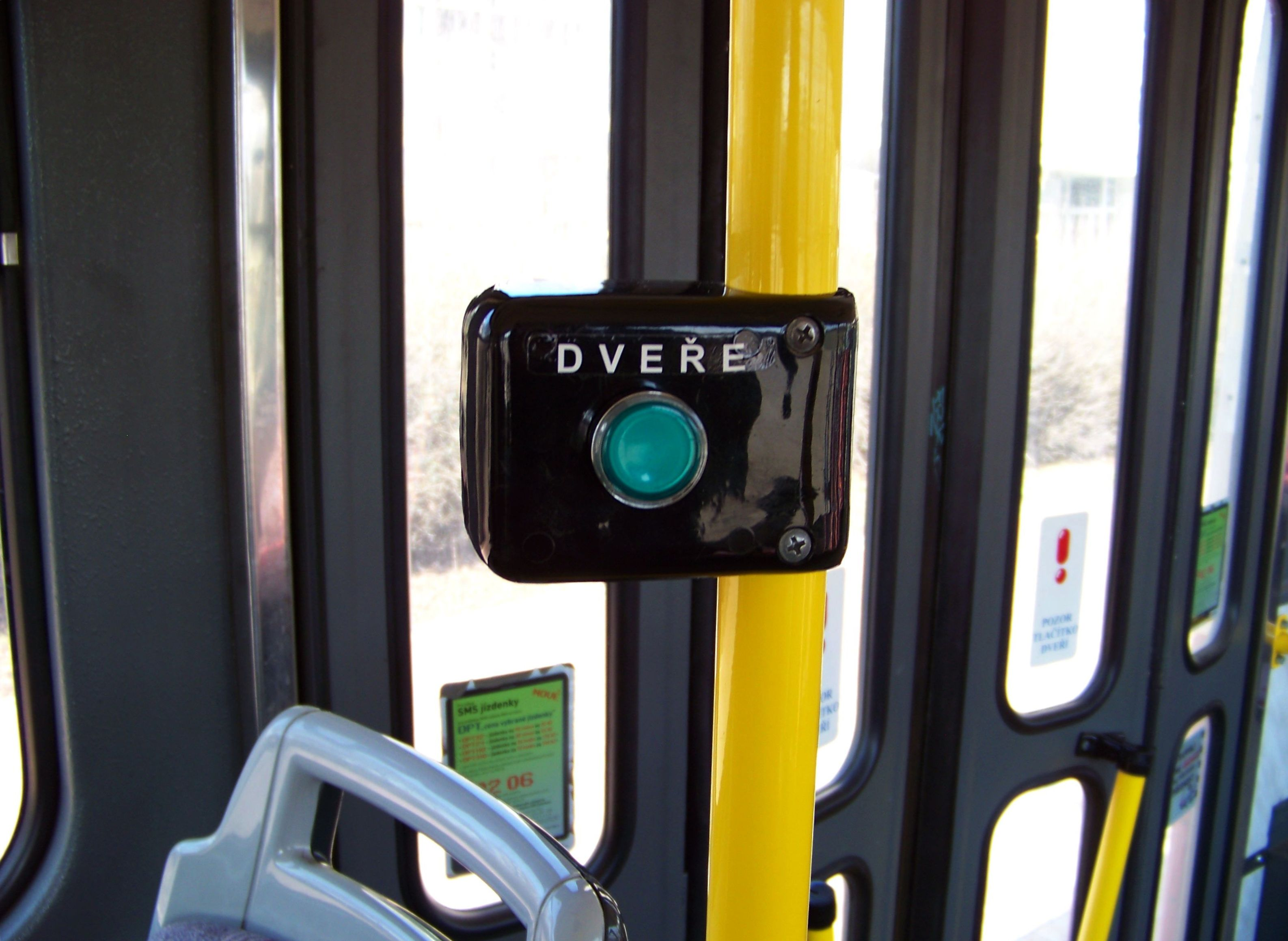 Prague, the Czech Republic. Door control button in a tram Tatra T3R.P No. 8579.